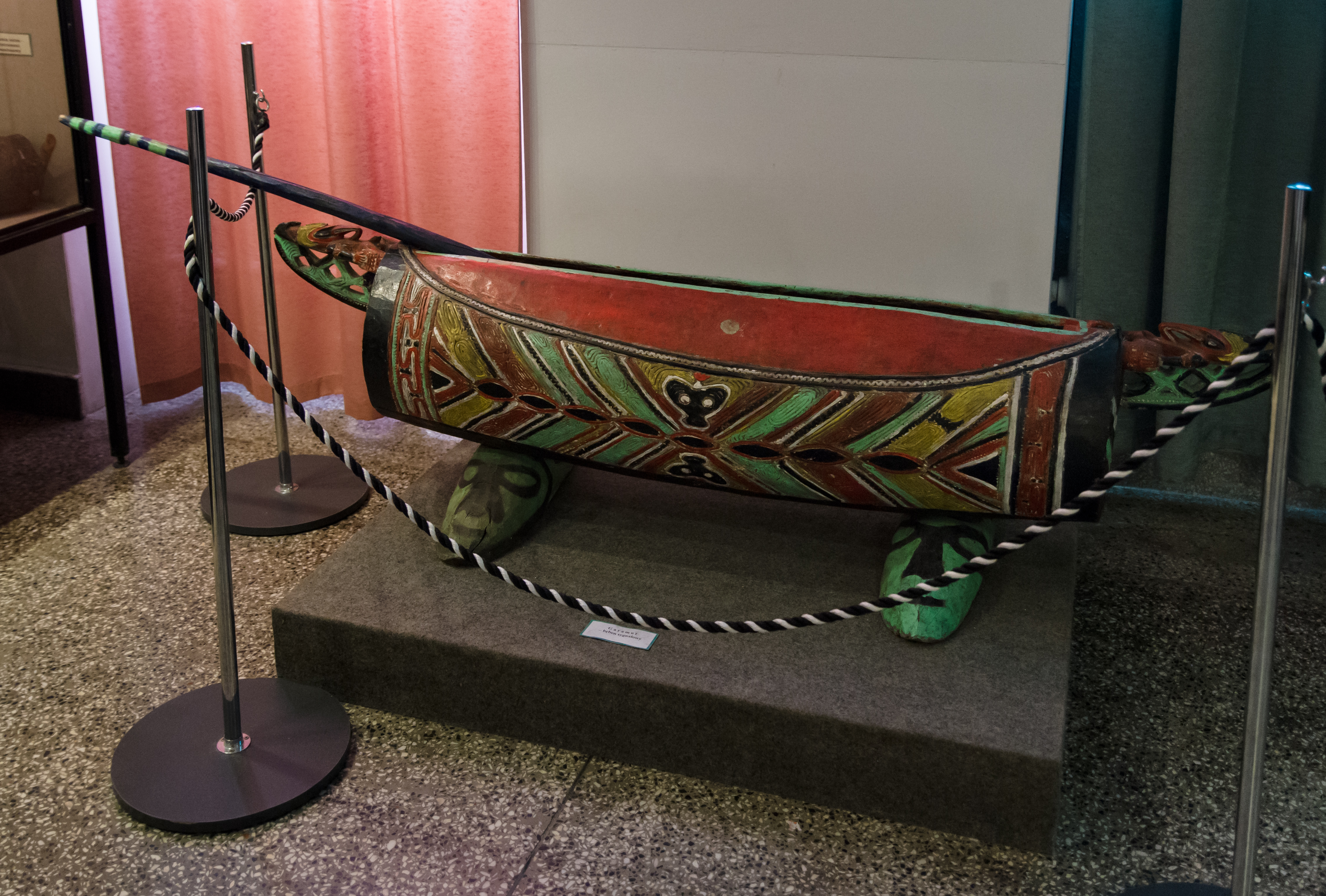 Garamut - a ritual drum in Divine Word Missionaries Museum in Pieniężno, Poland.